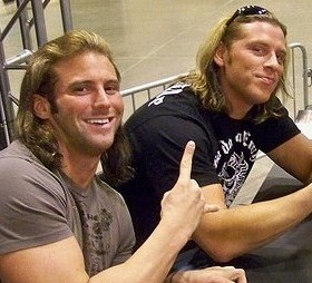 Zack Ryder and Curt Hawkins posing with a fan at Wrestlemania Axxess in 2009.